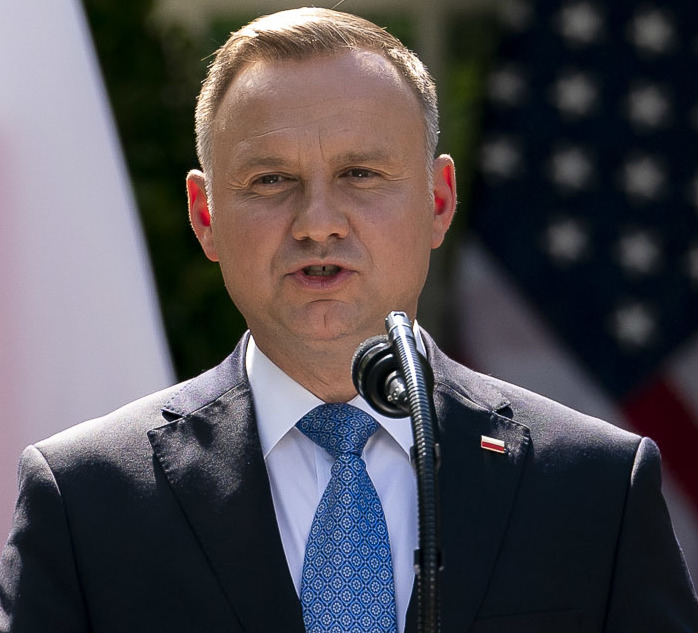 President Donald J. Trump participates in a joint press conference with Polish President Andrzej Duda Wednesday, June 24, 2020, in the Rose Garden of the White House. (Official White House Photo by Tia Dufour)